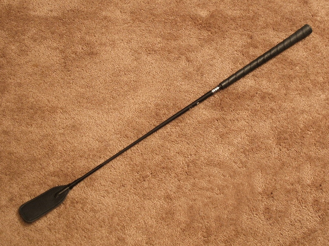 Riding crop